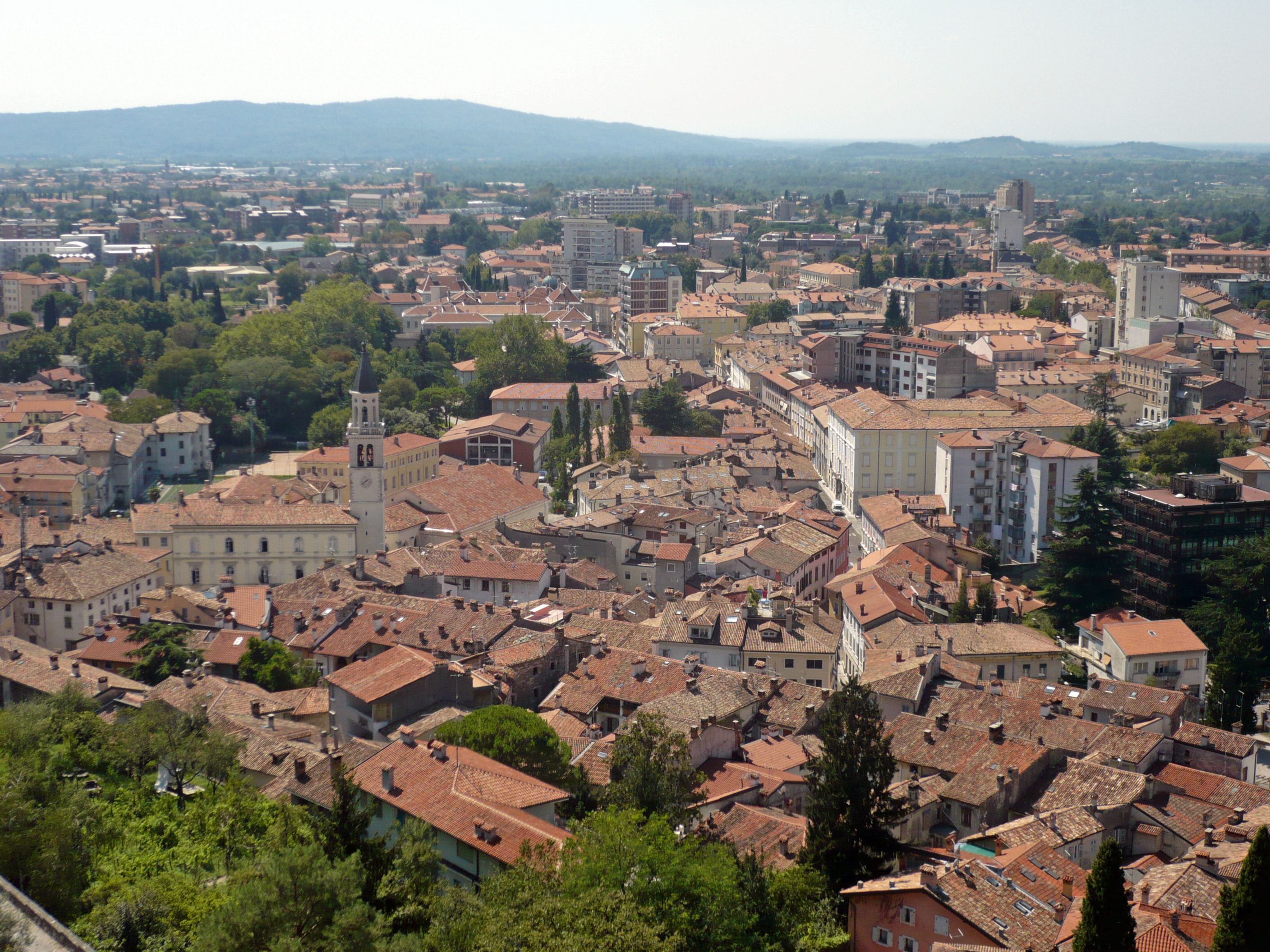 View of the town of Gorizia (Gorica) in Friuli Venezia Giulia, Italy.